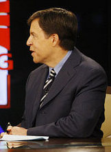 US President George W. Bush speaks with Bob Costas of NBC Sports during an interview ``while attending the 2008 Summer Olympic Games in Beijing.